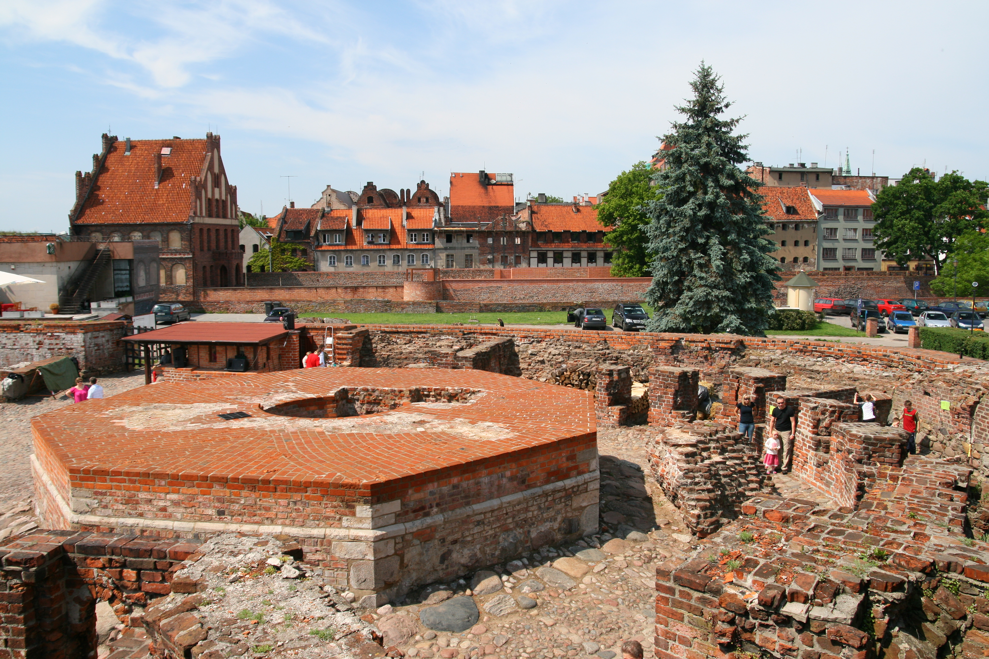 Teutonic Knights Castle in Toruń.